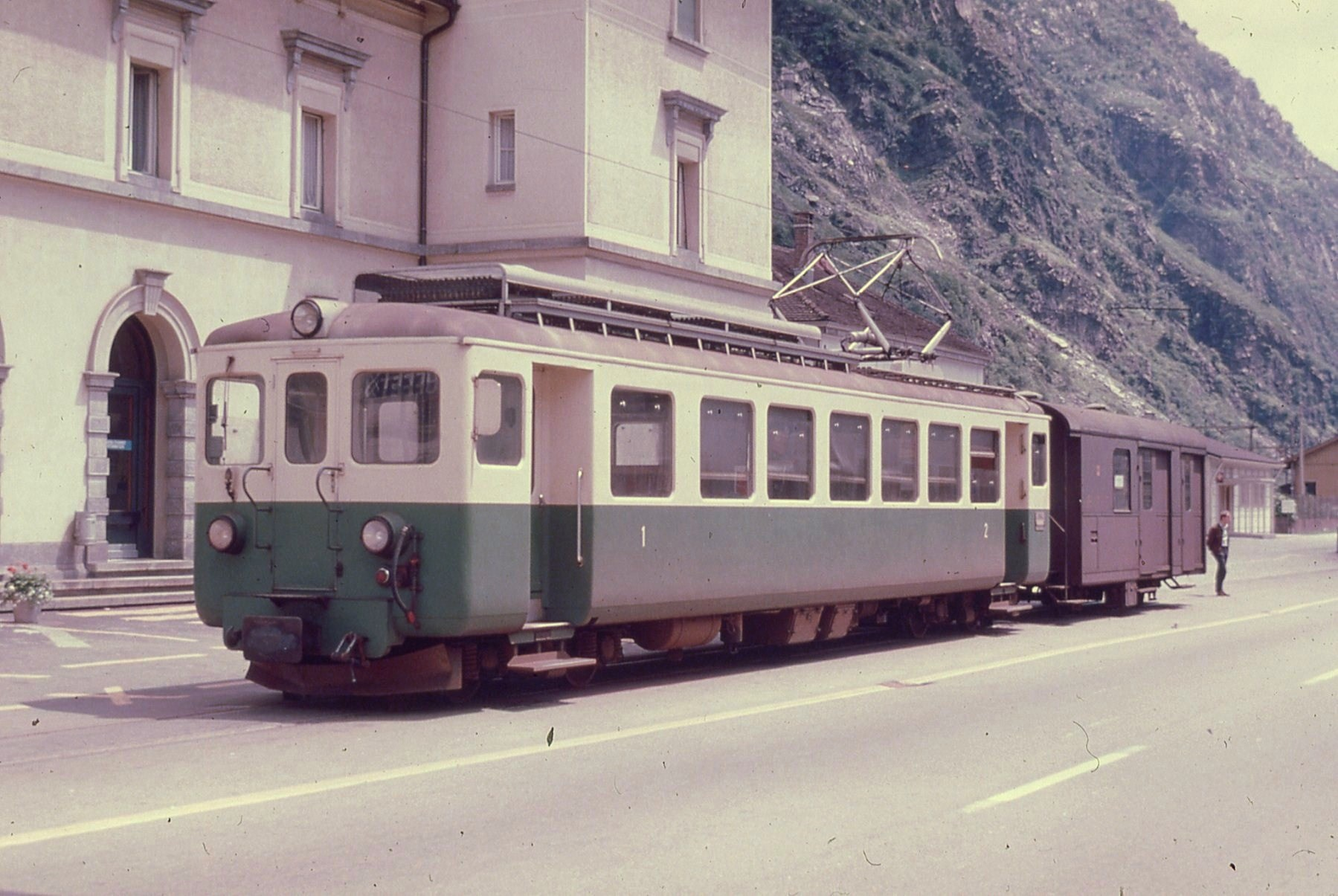 Tram of the Biasca-Acquarossa line, in Ticino, Switzerland